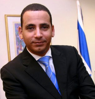 Yoel Hasson (Hebrew: יואל חסון, born 4 April 1972) is an Israeli politician and a member of the Knesset for Kadima.